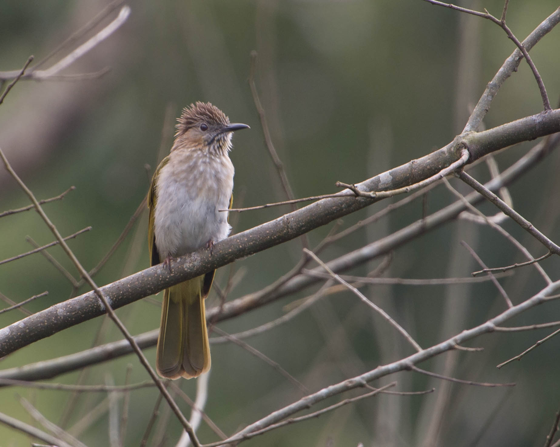 Mountain Bulbul (Ixos mcclellandii) at Thai/Myanmar Border. Doi Ang Khang National Park, Chiang Mai Thailand. Tallest point 2,285 metres above sea level